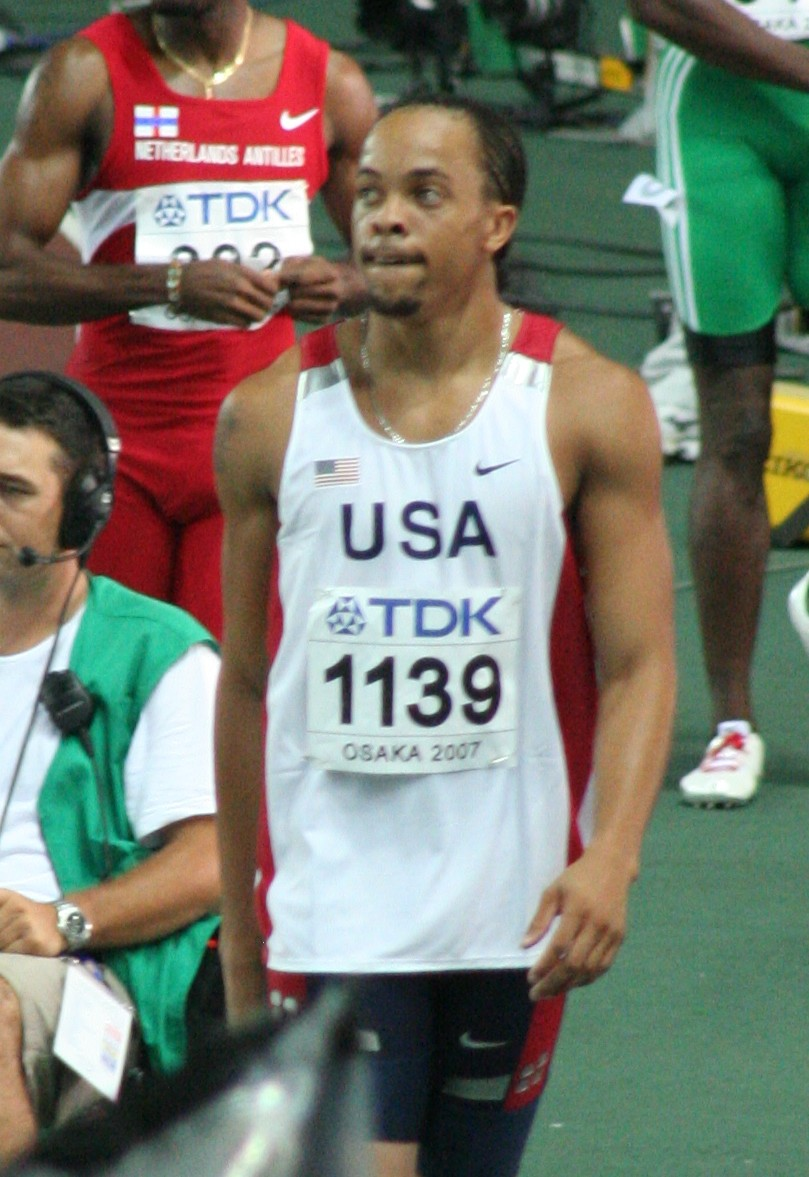 World Athletics Championships 2007 in Osaka - US 200 metres runner Wallace Spearmon